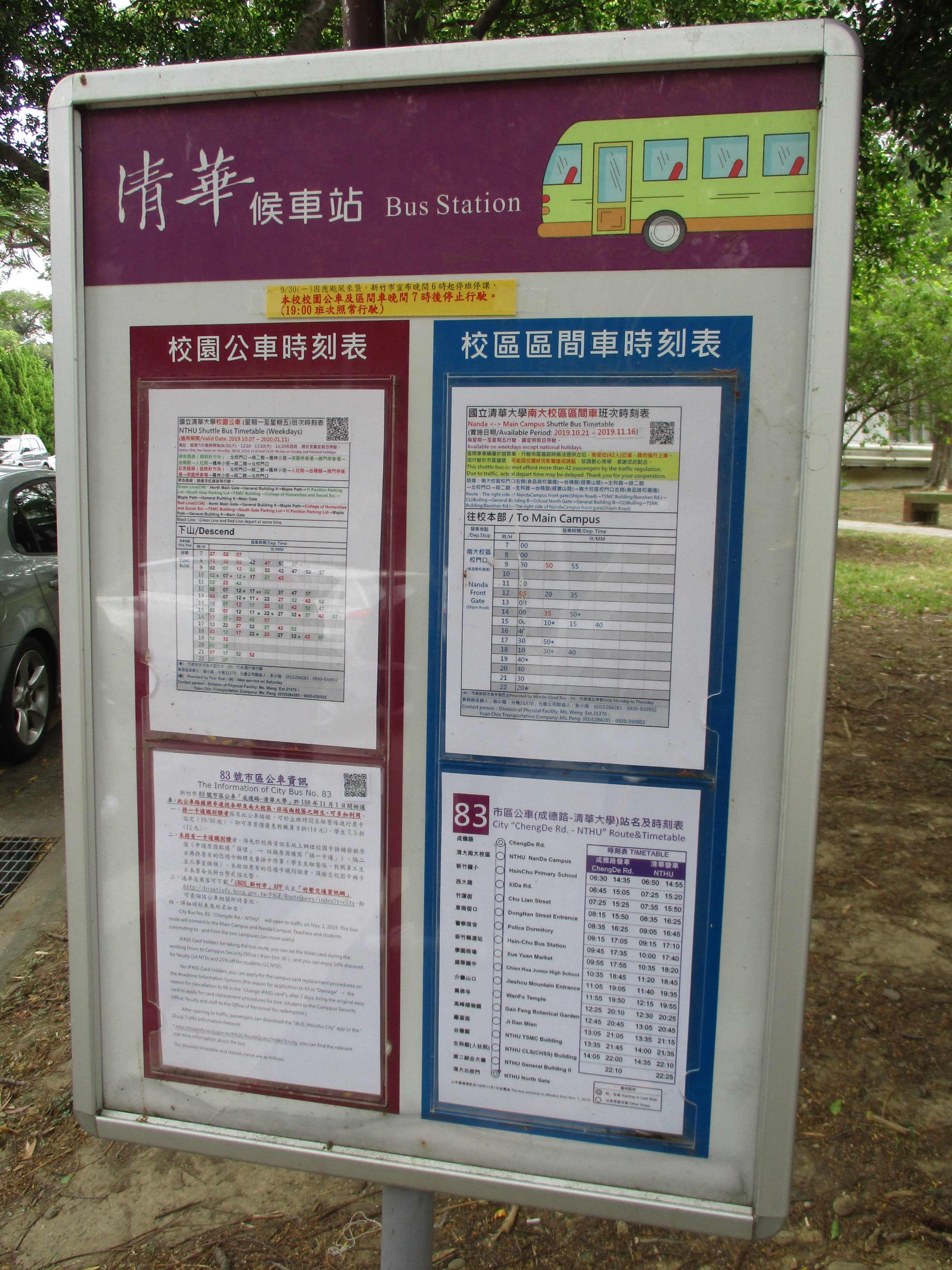 The campus bus stop of National Tsing Hua University, which is opposite General Building II